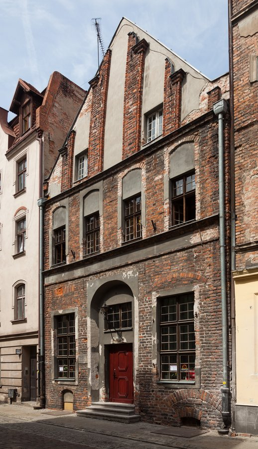 Gothic house at 12 Franciszańska in Toruń, Poland.